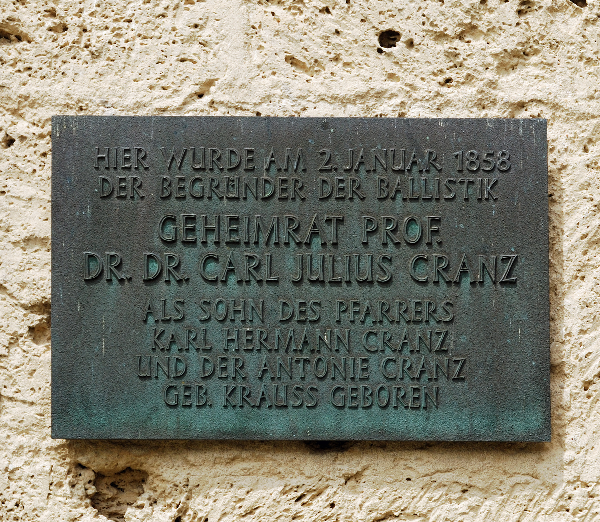 Information board on the birth house of the German mathematician and physicist Carl Julius Cranz in Hohebach-Dörzbach in Southern Germany. The inscription reads: Here was born on the 2nd of January 1858 the founder of the ballistics Prof. Carl Julius Cranz, the son of the pastor Karl Hermann and Antonia Cranz born Krauss.